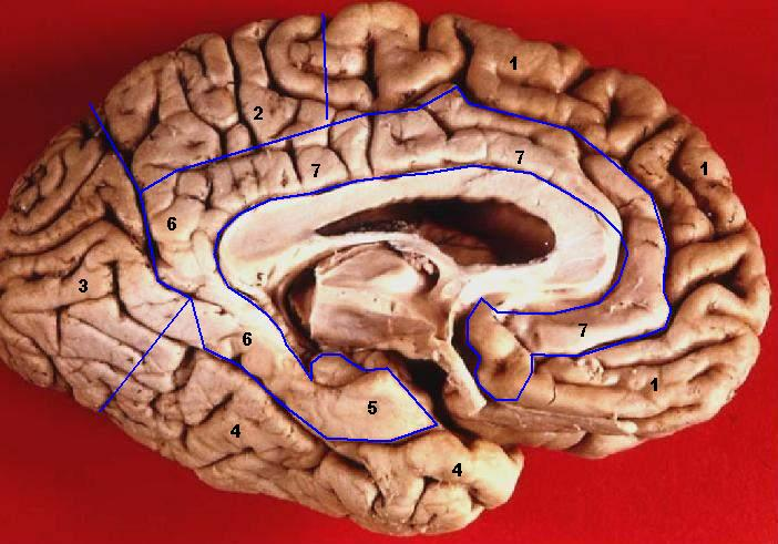 Human brain - inferior-medial view - The Lobes Lobus frontalis Lobus parietalis Lobus occipitalis Lobus temporalis Gyrus parahippocampalis Lobus limbicus Gyrus cinguli (font: arial black, size: 12)